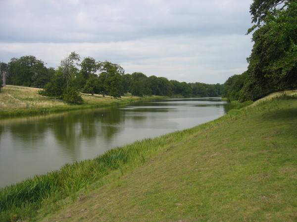 Holkham Lake